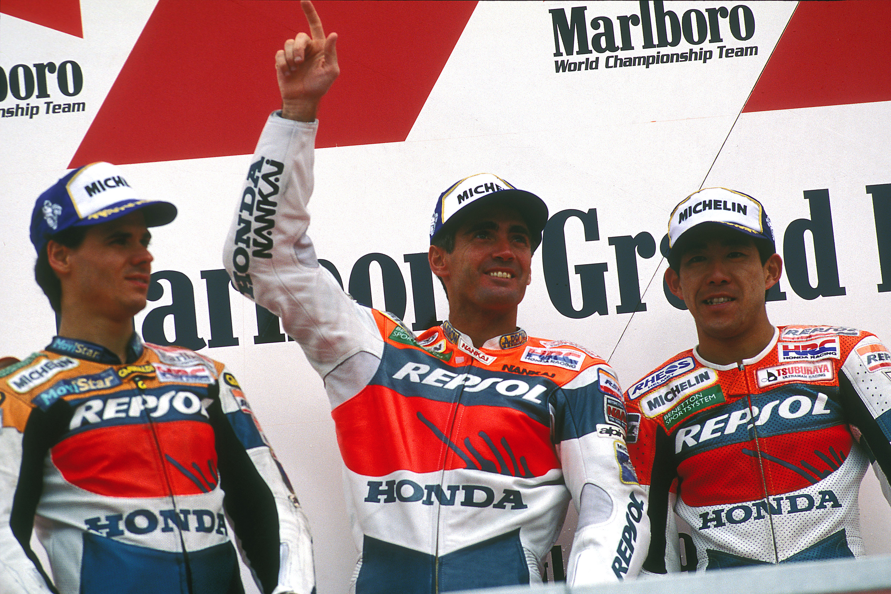 Àlex Crivillé, Mick Doohan and Tadayuki Okada, celebrating on the podium after finishing in second, first and third place at the 1997 Japanese Grand Prix.